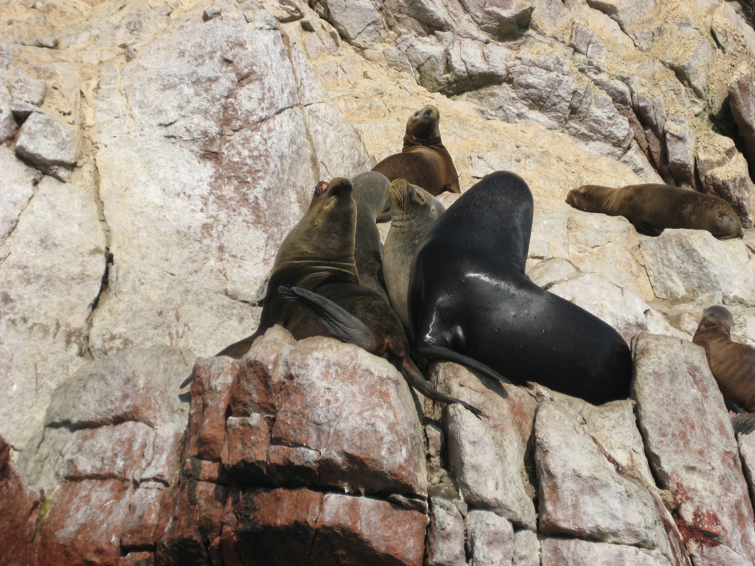 Otaria flavescens on Ballestas Islands.